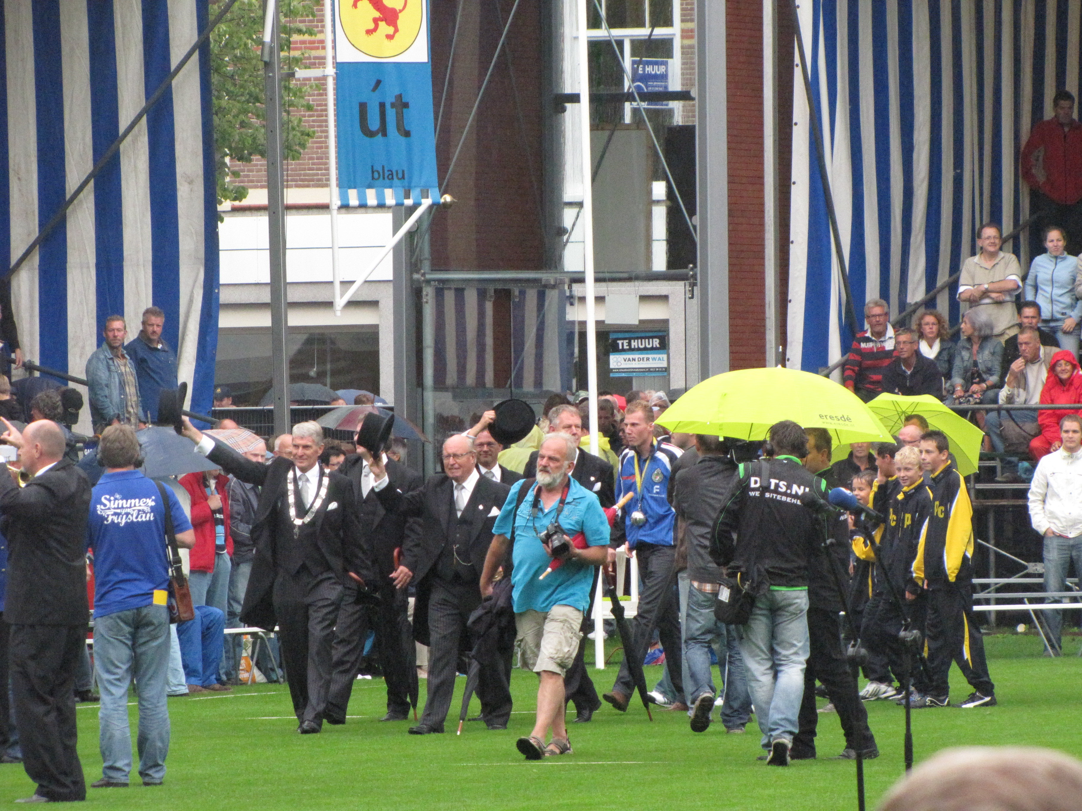 Arrival of the permanent committee at the game-field, PC 2010